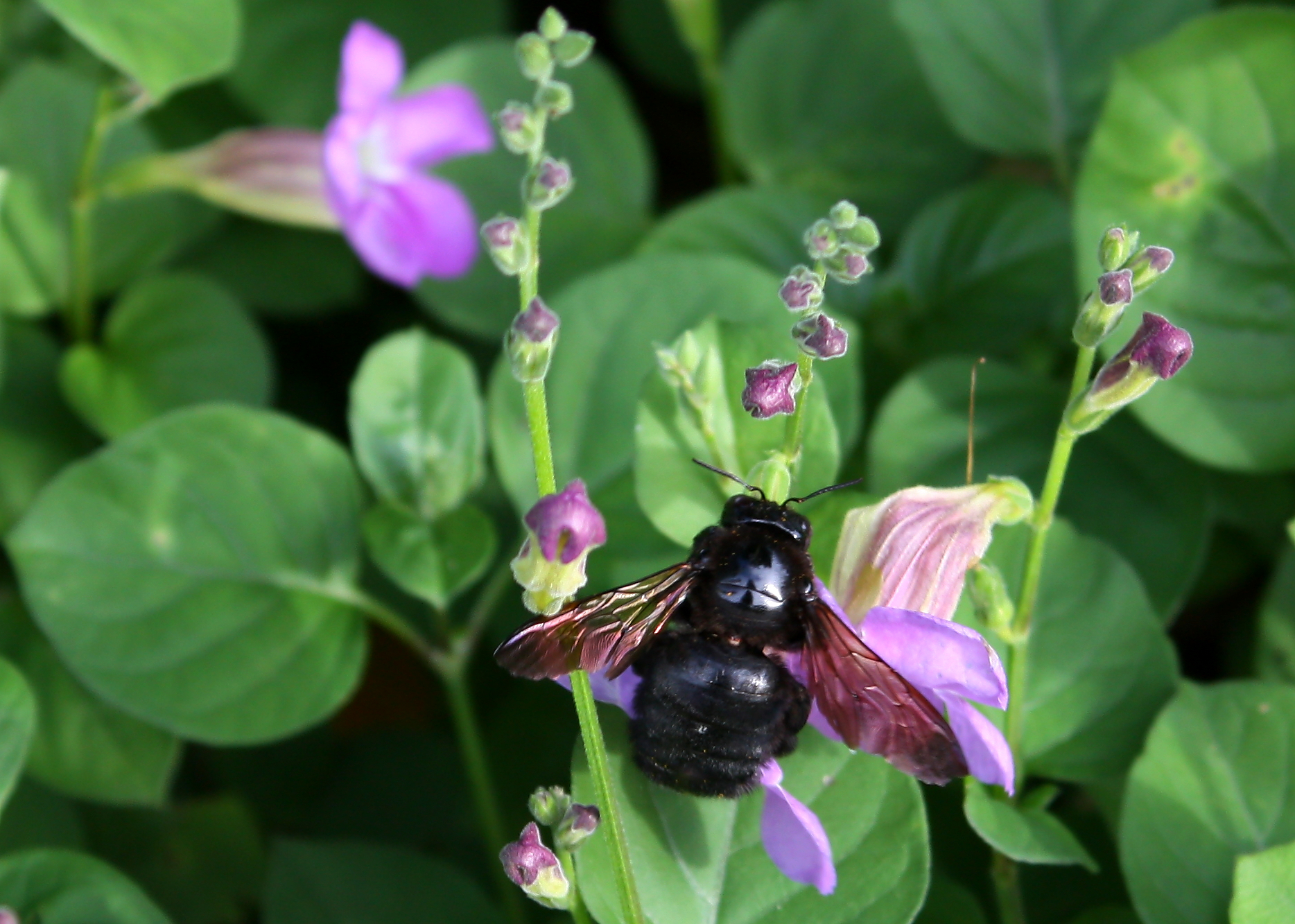 A large female Sonoran carpenter bee (Xylocopa sonorina) foraging in a shady field of Chinese violet (Asystasia gangetica). Although not present in the narrow frame, there are less than a dozen carpenter bees working the same flowers nearby. Following closely behind them are more than a dozen honey bees (Apis mellifera). One month before, a photograph of A. mellifera working the field was captured in direct sunlight: A. mellifera There is some discussion about whether X. sonorina is a primary nectar "robber" of A. gangetica, directly paving the way for secondary robbery by A. mellifera who is able to access the plant nectar after X. sonorina has visited the flower. For further information see Barrows (1980) and Villalobos & Shelly (1996).